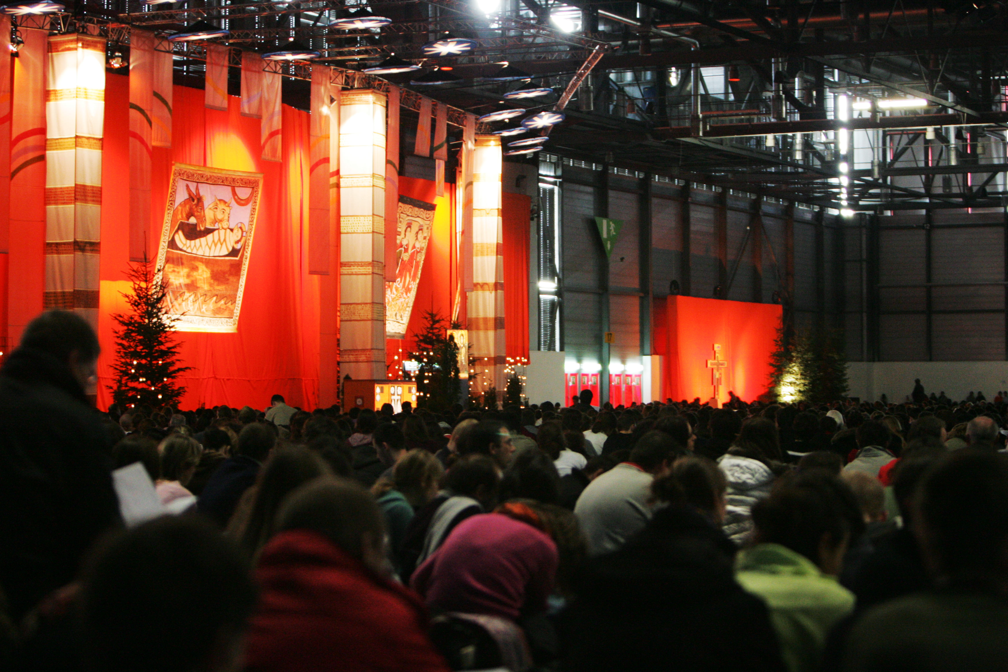 Taizé New Year European Meeting 2007 in Geneva.